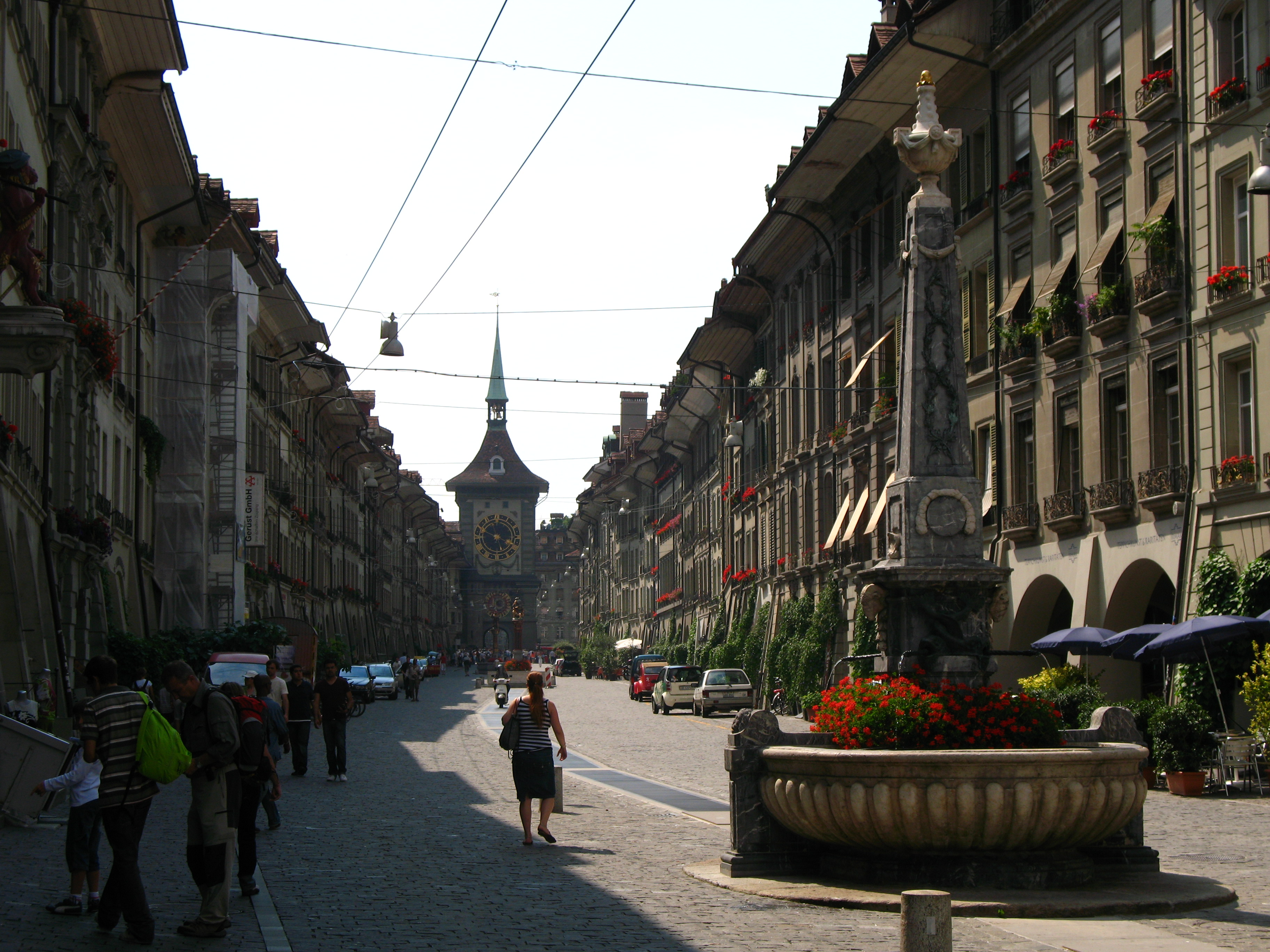 Fountains and the Clocktower on Kramgasse, Berne, Switzerland